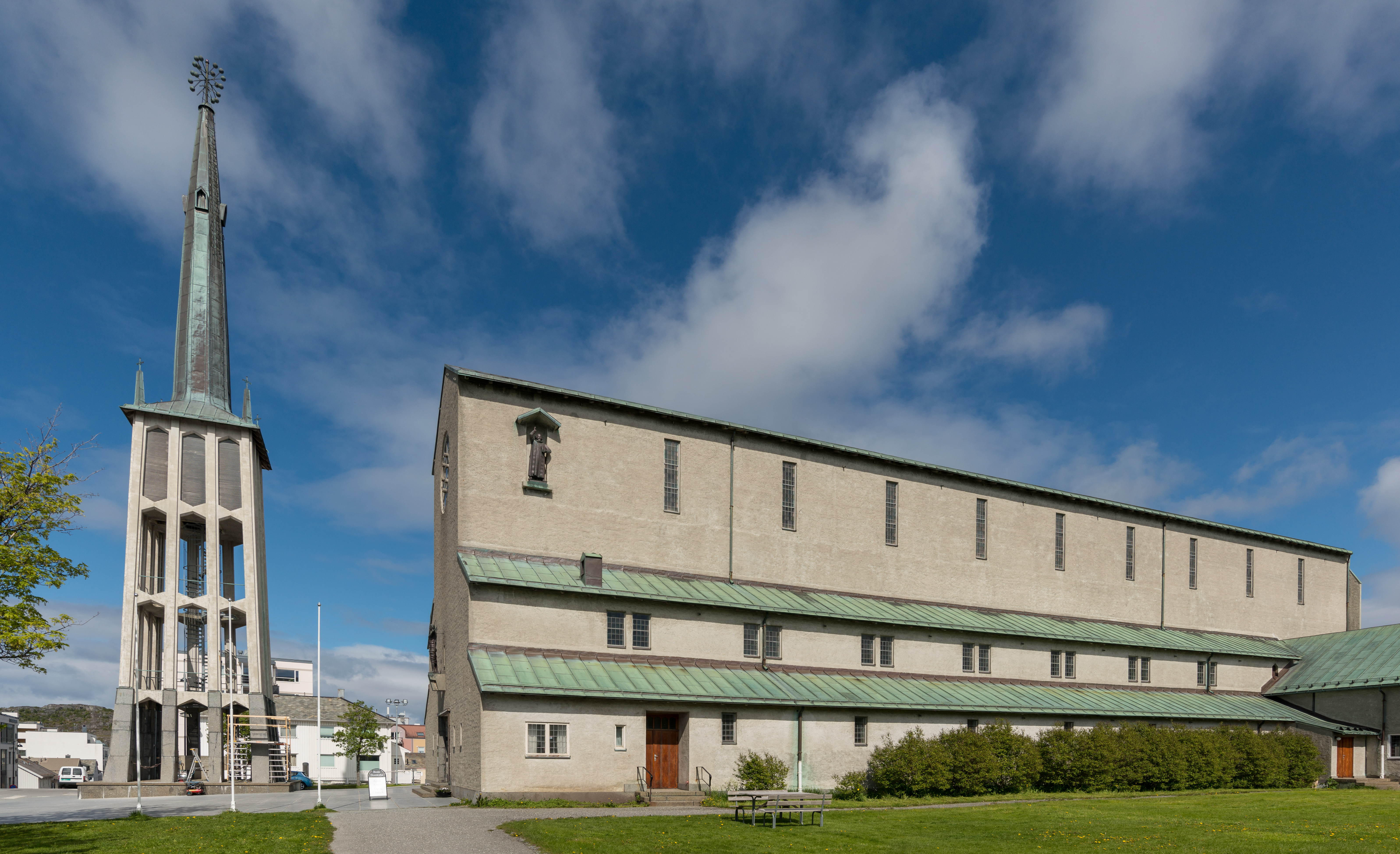 A south view of Bodø Cathedral